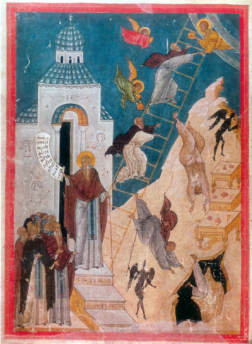 The Ladder of Divine Ascent, a Russian miniature from the Russian State Library in Moscow